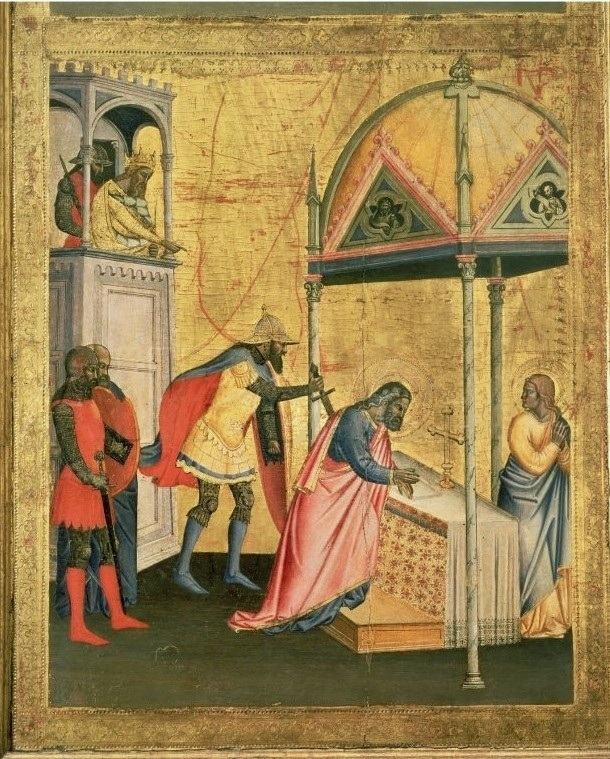 Andrea Orcagna and Jacopo di Cione St. Matthew and Four Stories from His Life. Detail 1367-68 Uffizi, Florence